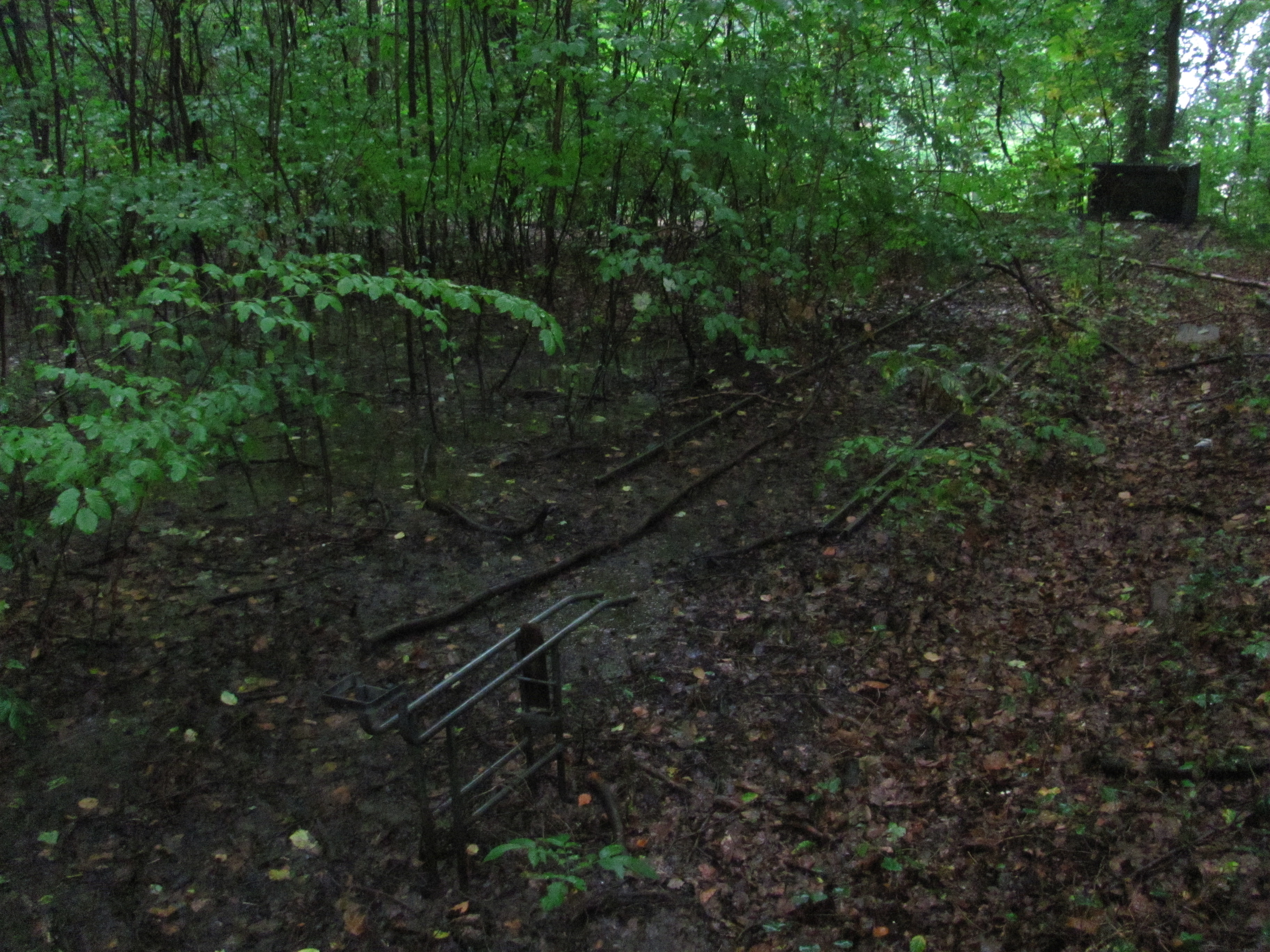 Radebeul Bilzsanatorium historische Kegelbahn